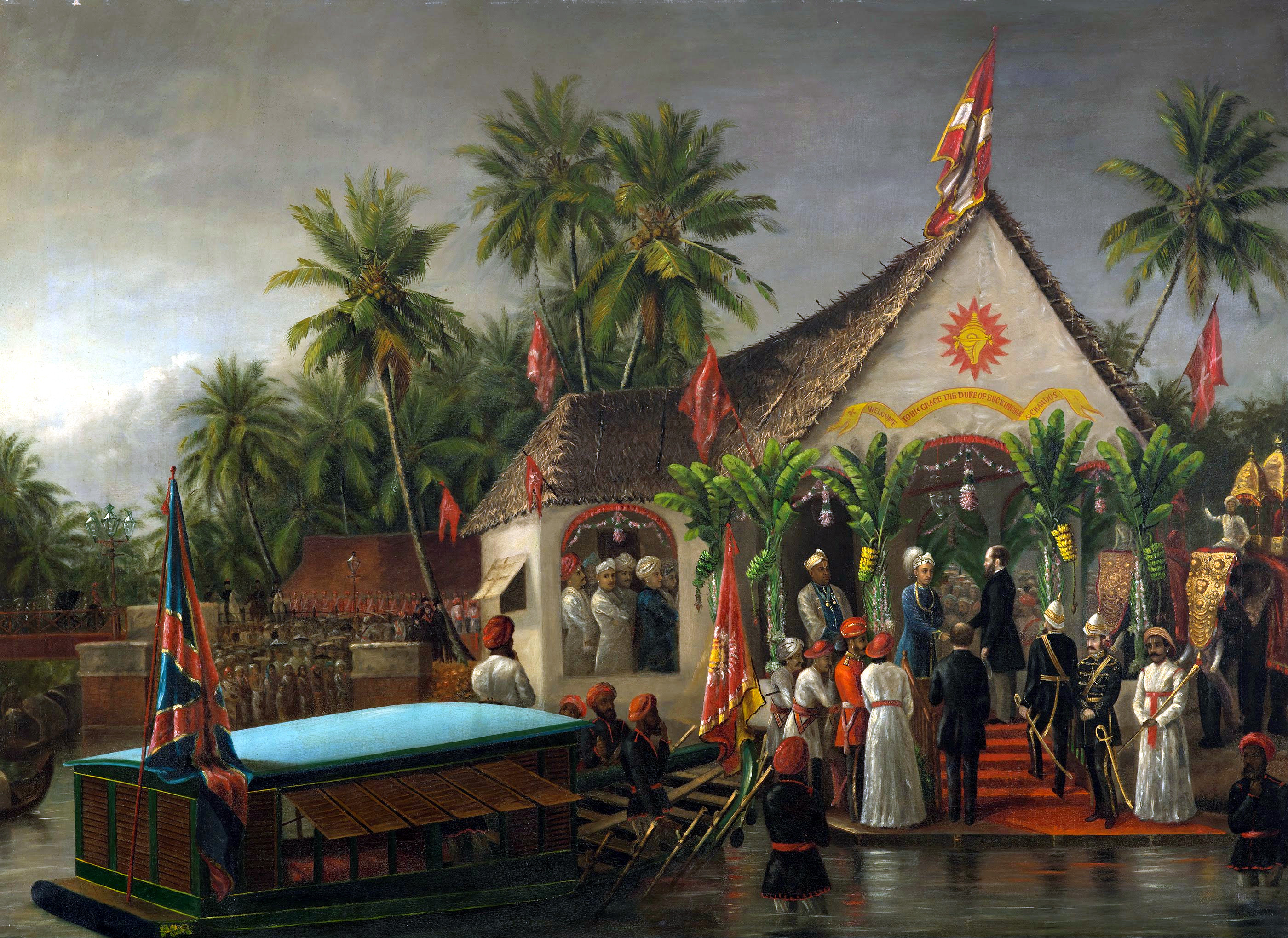 Depiction of the Duke of Buckingham being greeted by Visakham Thirunal, with Ayilyam Thirunal of Travancore looking on, during Buckingham's visit to Trivandrum, Travancore in early 1880. Auctioned by London auctioneer Bonhams on 26 October 2007, bought for £602,400 ($1.24m) by Neville Tuli, a representive of actual buyer.